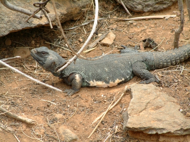 Uromastyx aegyptia